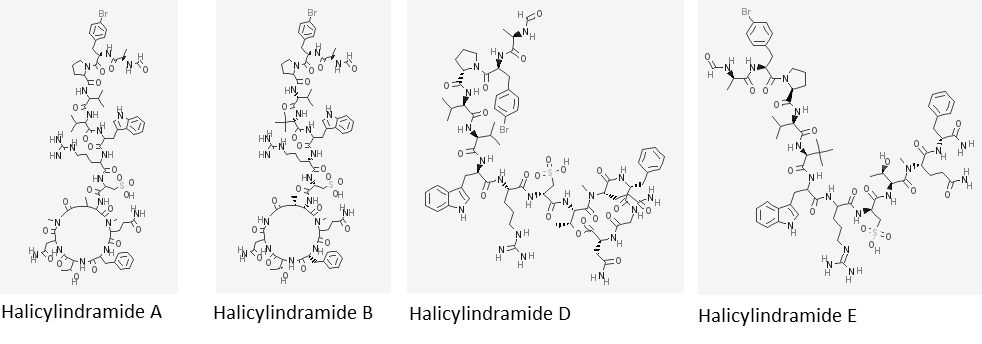 Halicylindramide A,B,D,E